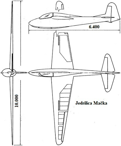 Yugoslav Glider Macka